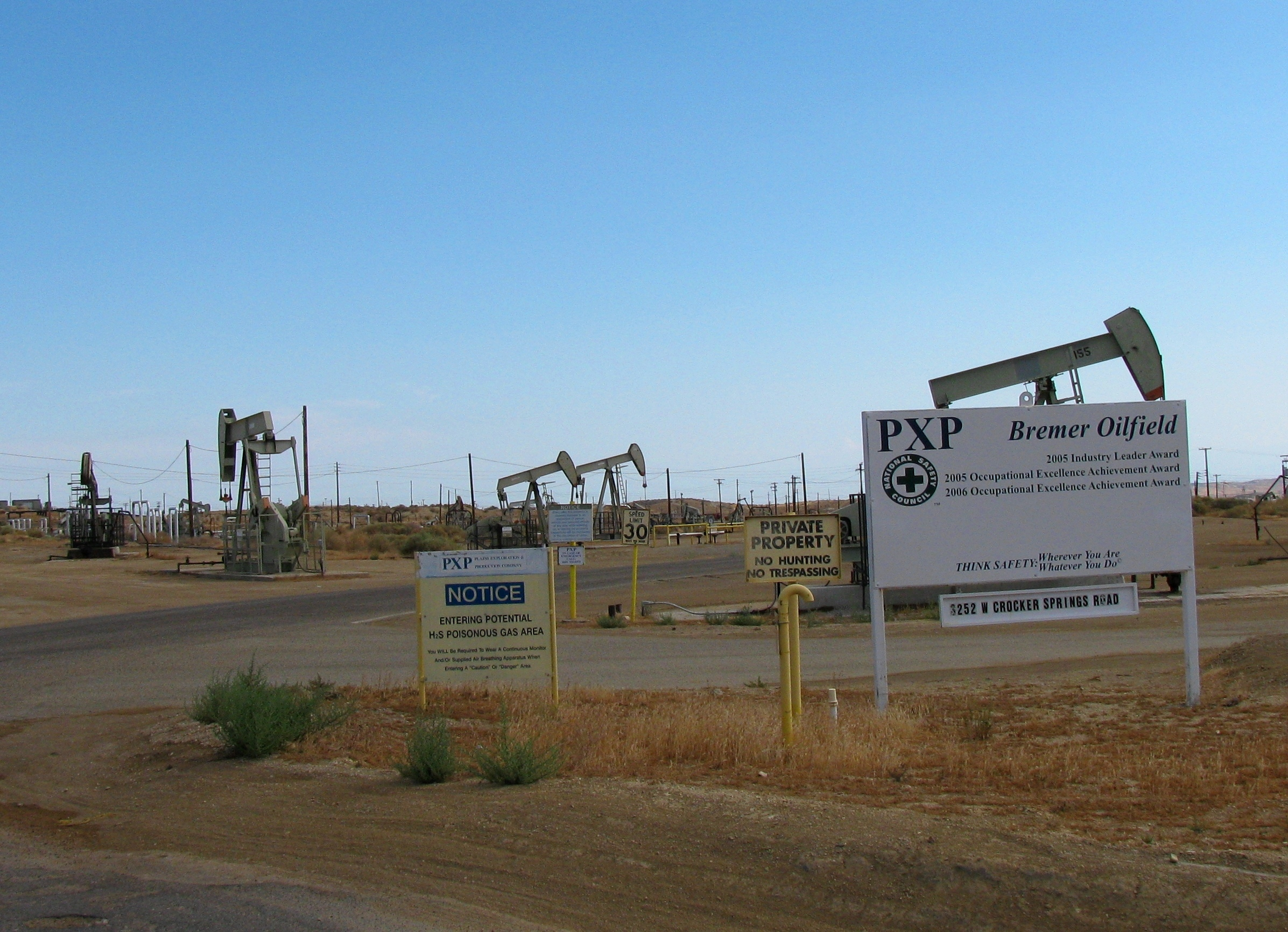 Plains operations at the Midway-Sunset field (Bremer area); August 2009; photo by self, GFDL/equiv